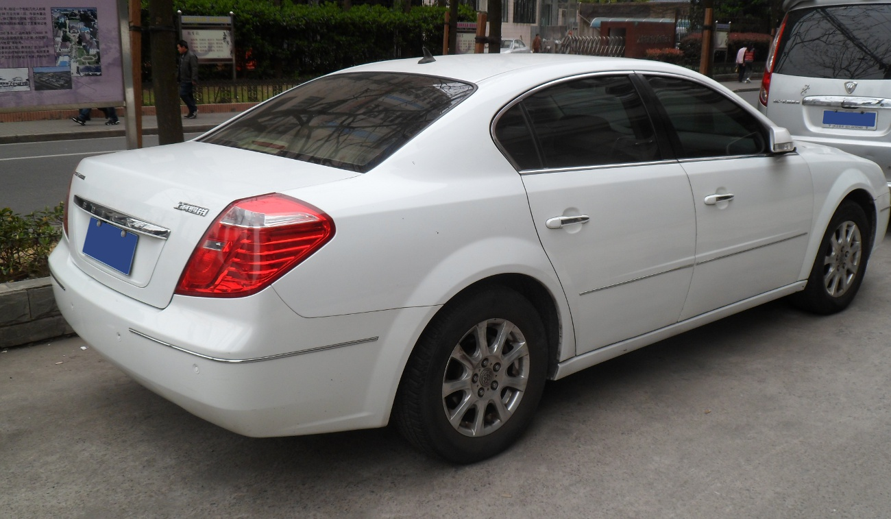 Buick LaCrosse CN photographed in Shanghai, China.